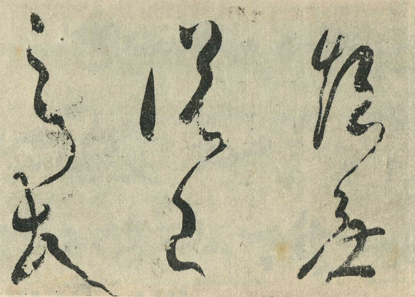 Saishigyoku Zayumei, written by Kukai, owned by Baron Masuda